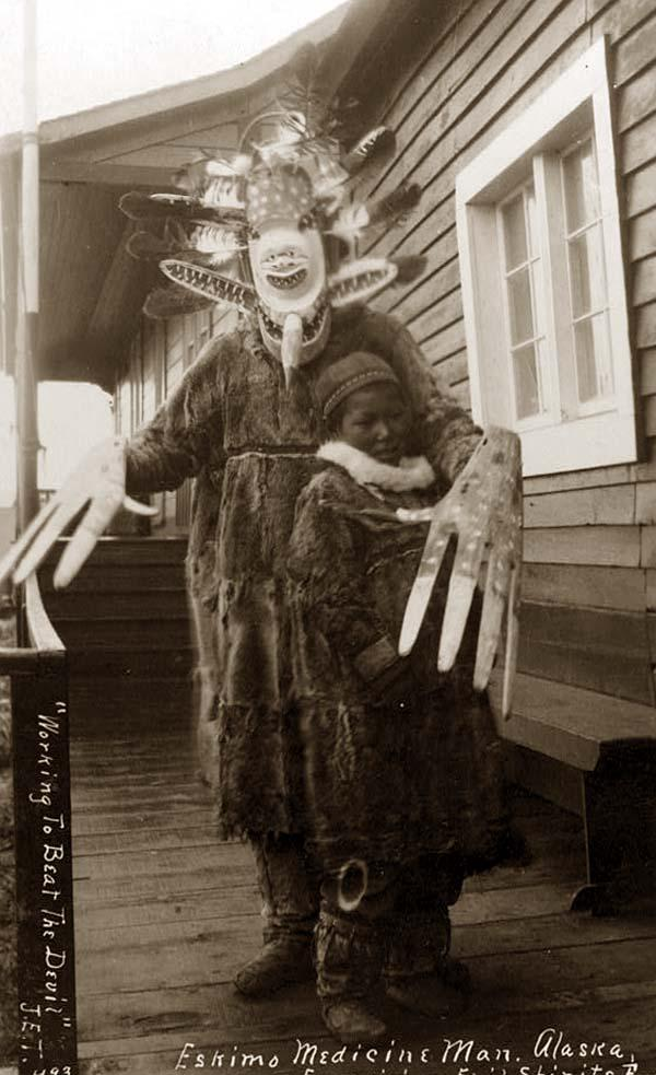 an Inuit medicine man and a boy in 1900 Description given at the source: "(...) photograph of Eskimo medicine man and sick boy. It was made in 1900." (text from same source)